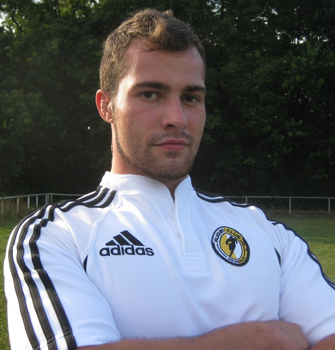 Profile photo of German rugby union player Lukas Rosenthal